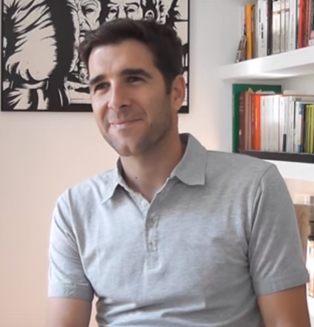 Spanish Journalist Fernando Gonzalez "Gonzo"